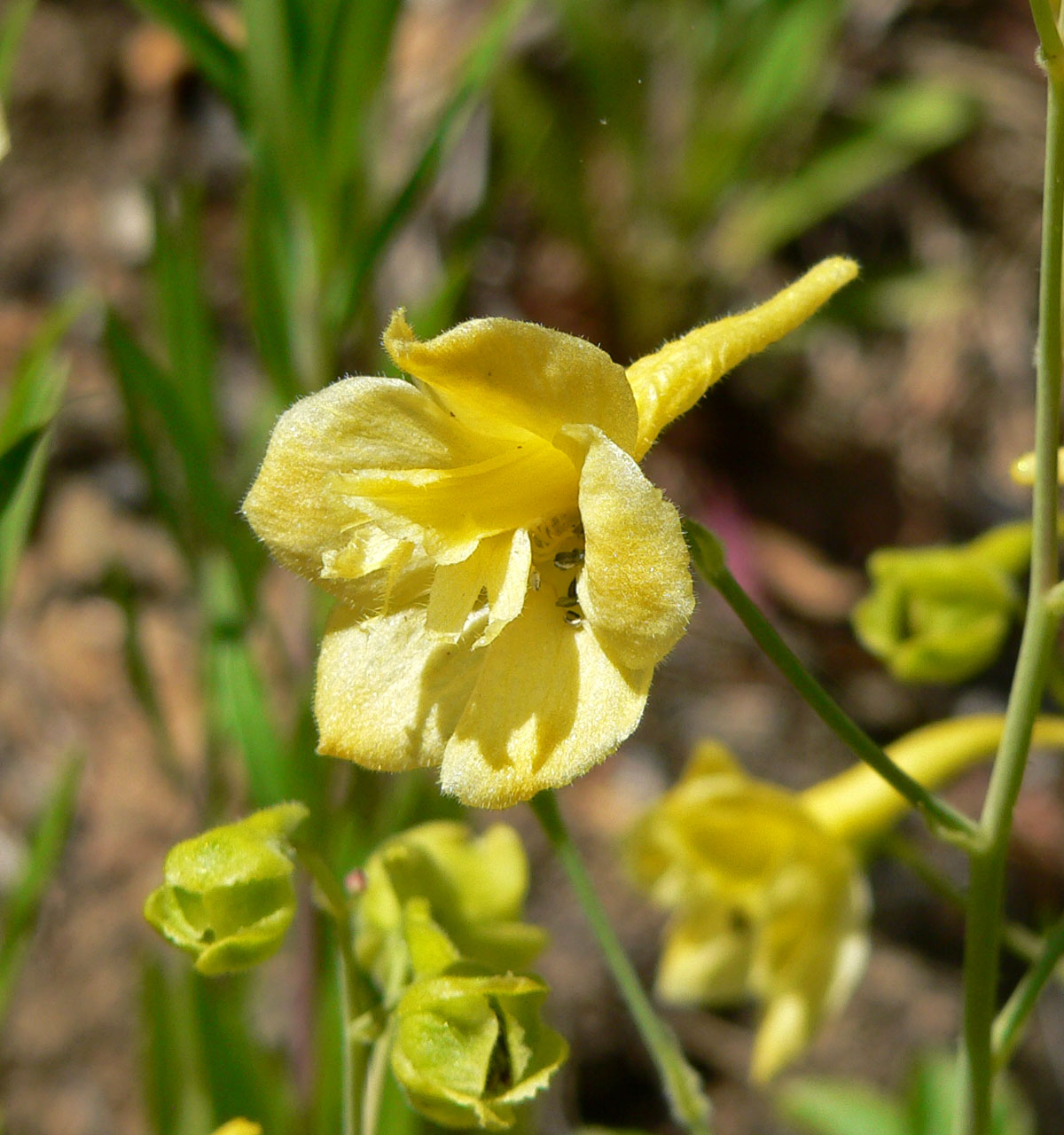 Delphinium luteum at the University of California Botanical Garden, Berkeley, California